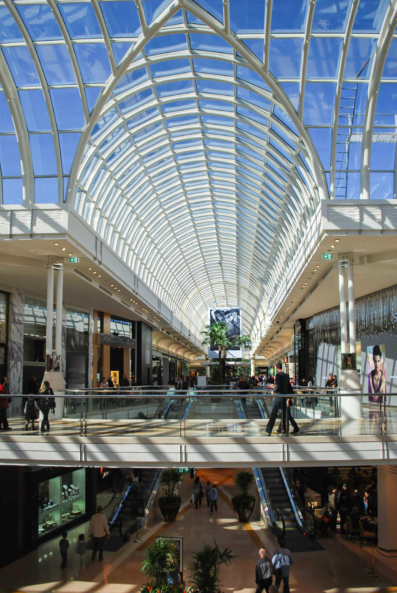 This is the new West Wing at Chadstone Shopping Centre